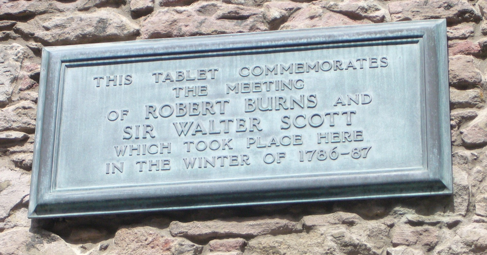 Sciennes Hill House plaque commemorating Robert Burns' encounter with the younger Walter Scott in the winter of 1786-7